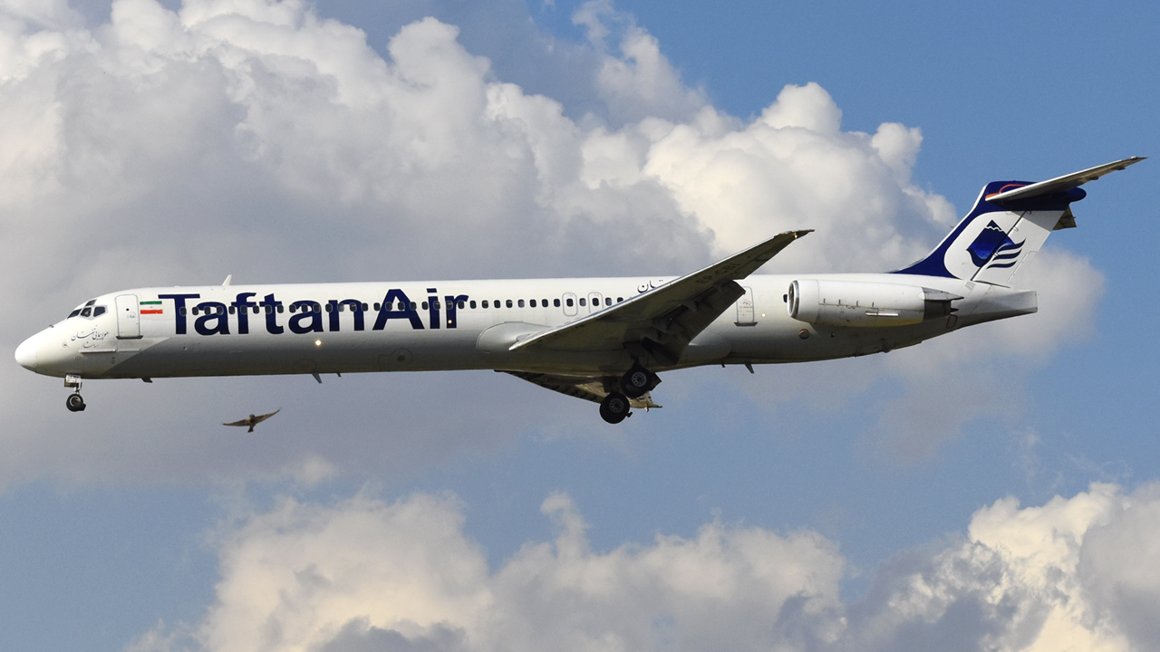 مک دانل داگلاس تفتان در حال فرود در مهرآباد